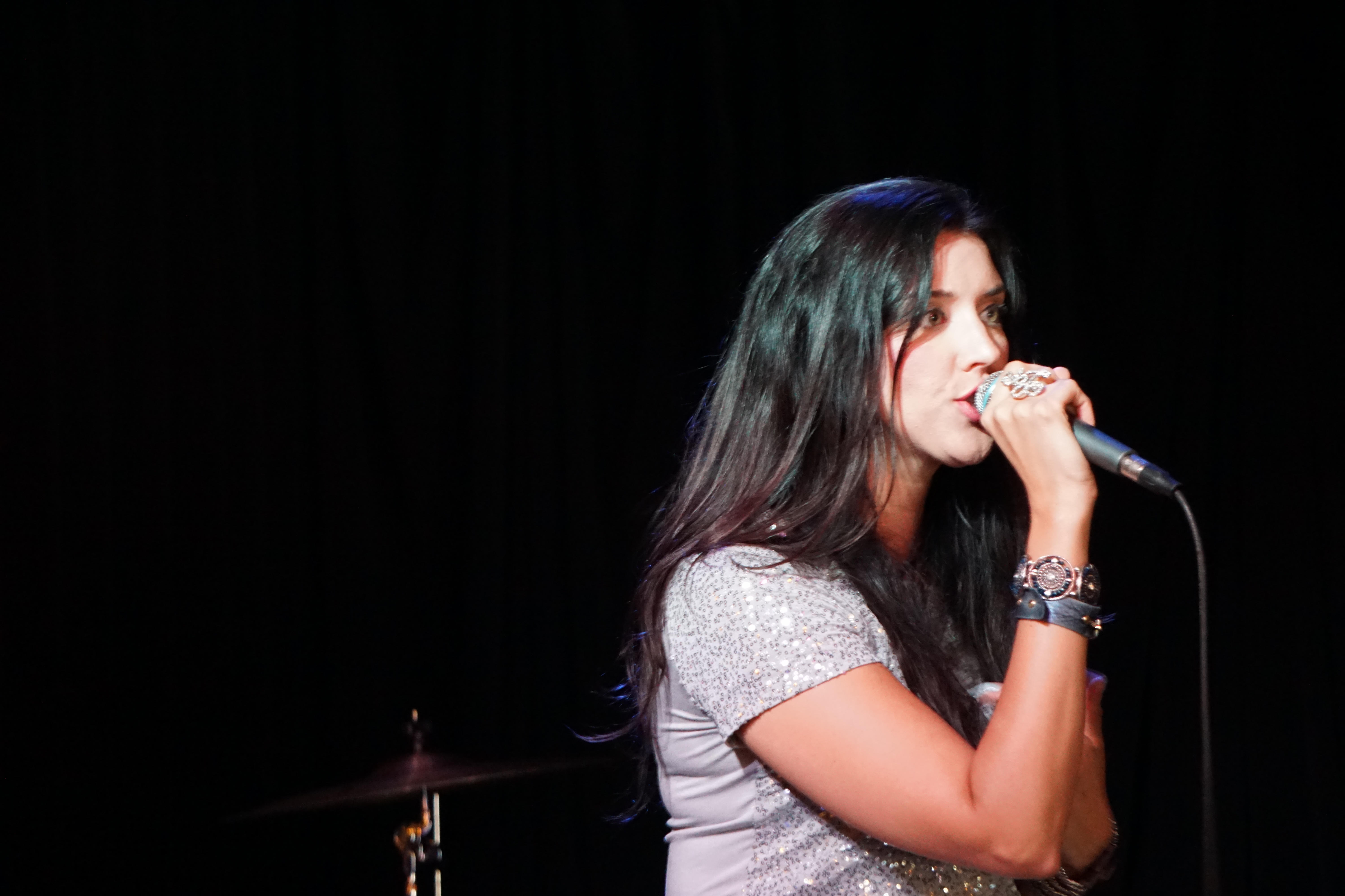 Day performing at the Country in Nashville, TN